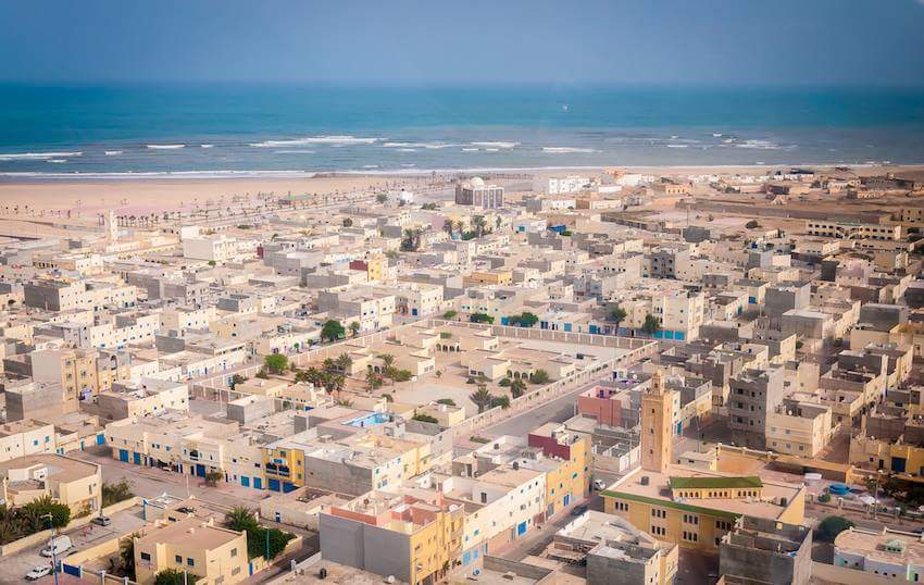 Tarfaya city 2016